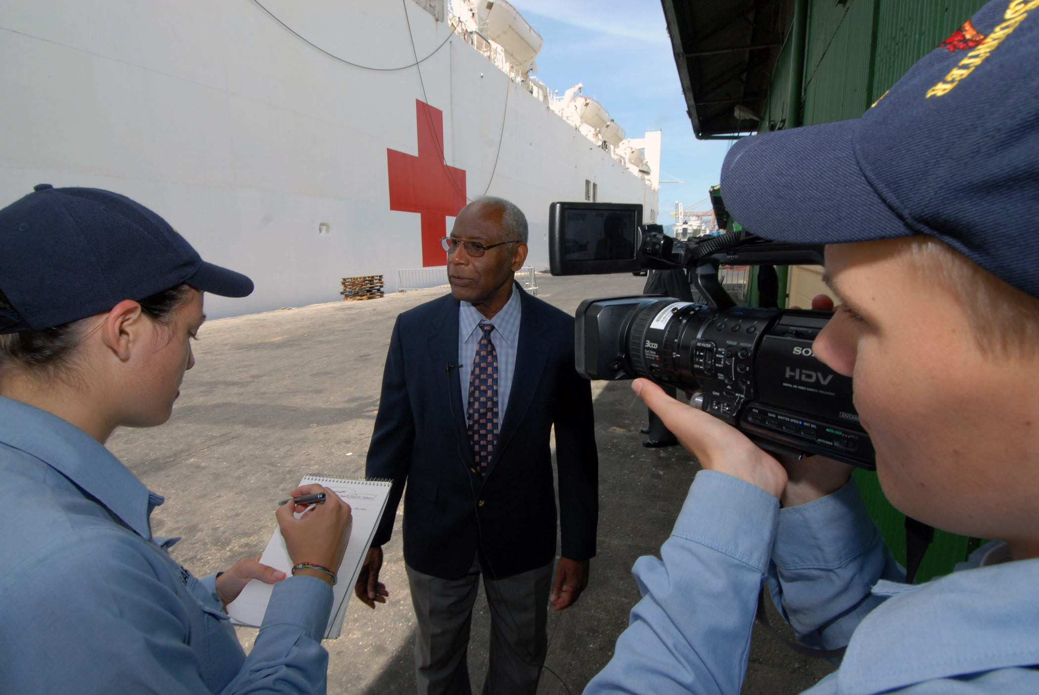 PORT-OF-SPAIN, Trinidad and Tobago (Sept. 19, 2007) - Mass Communication Specialist 3rd Class Kelly Barnes and Mass Communication Specialist Seaman Jeff Hall interview Dr. Roy Austin, U.S. ambassador to Trinidad and Tobago. The two Sailors attached to Military Sealift Command hospital ship USNS Comfort (T-AH 20) interviewed Austin following a tour the ship. Comfort is on a four-month humanitarian deployment to Latin America and the Caribbean providing medical treatment to patients in a dozen countries. U.S. Navy photo by Mass Communication Specialist 2nd Class Joshua Karsten (RELEASED)